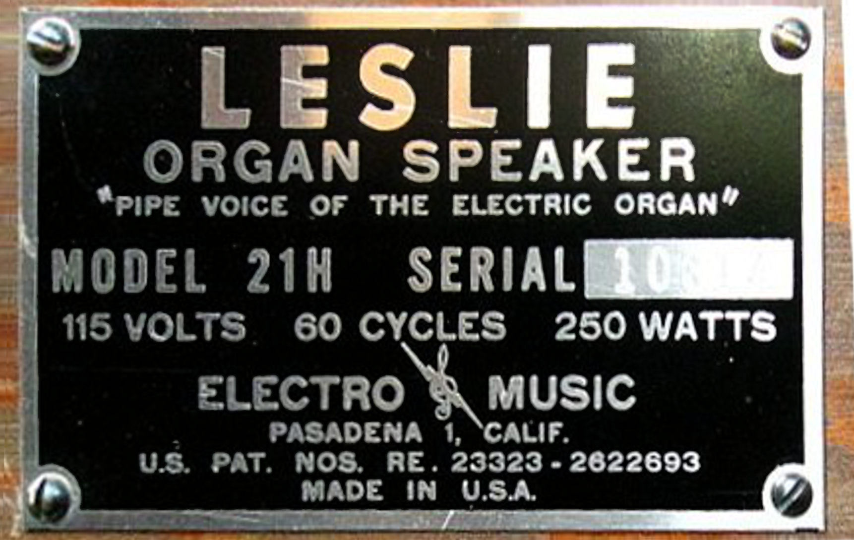 A close-up shot of the identification place of a Leslie 21H speaker